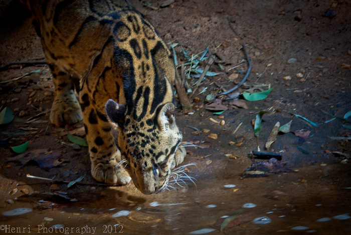 Clouded Leopard takes a drink at the Atlanta Zoo.